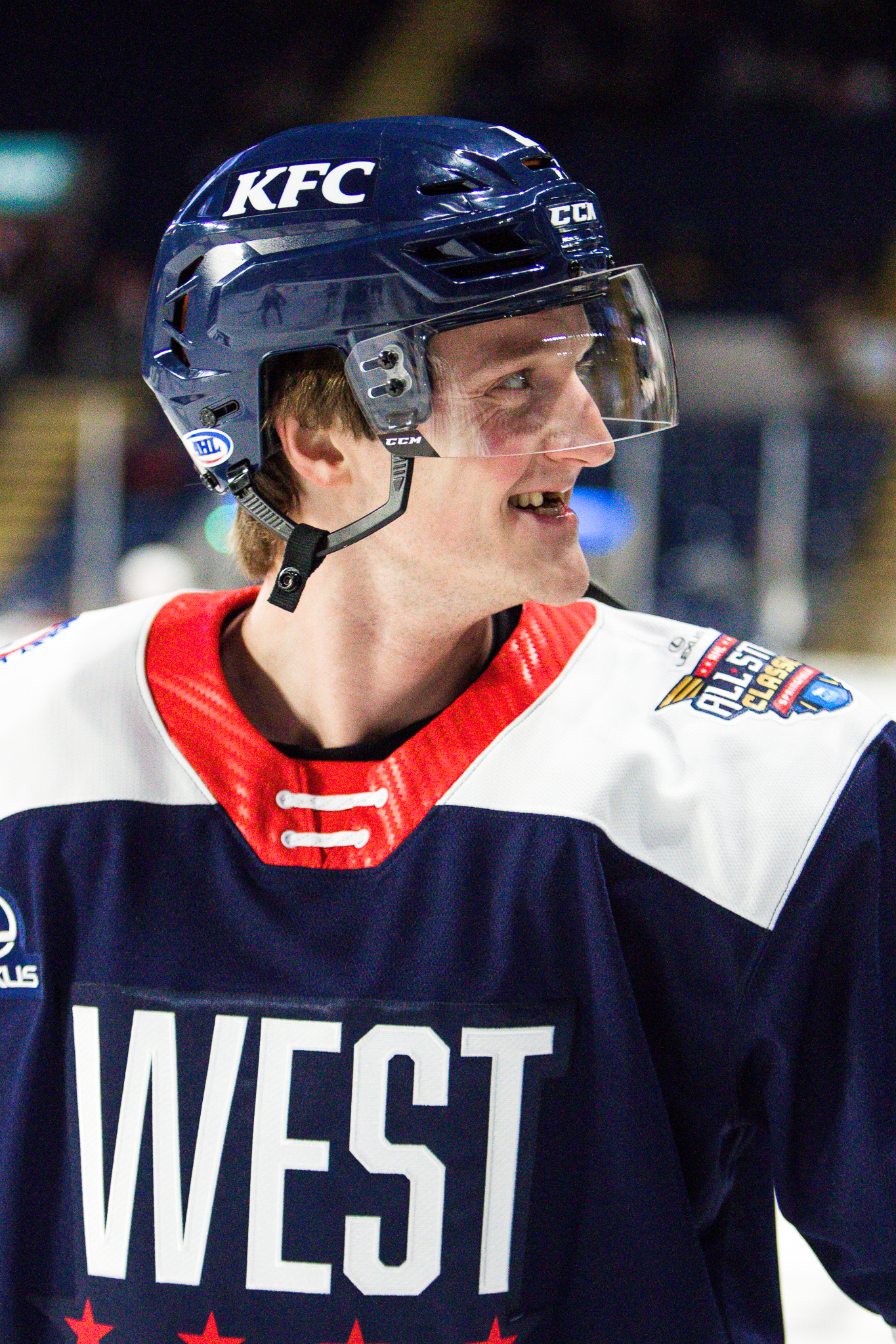 Photo By: Kelly Shea